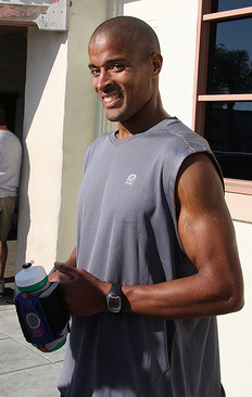 David Goggins in Encinitas, California.